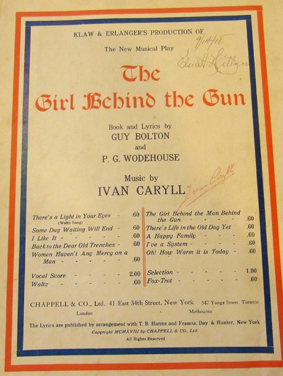 Sheet music cover art